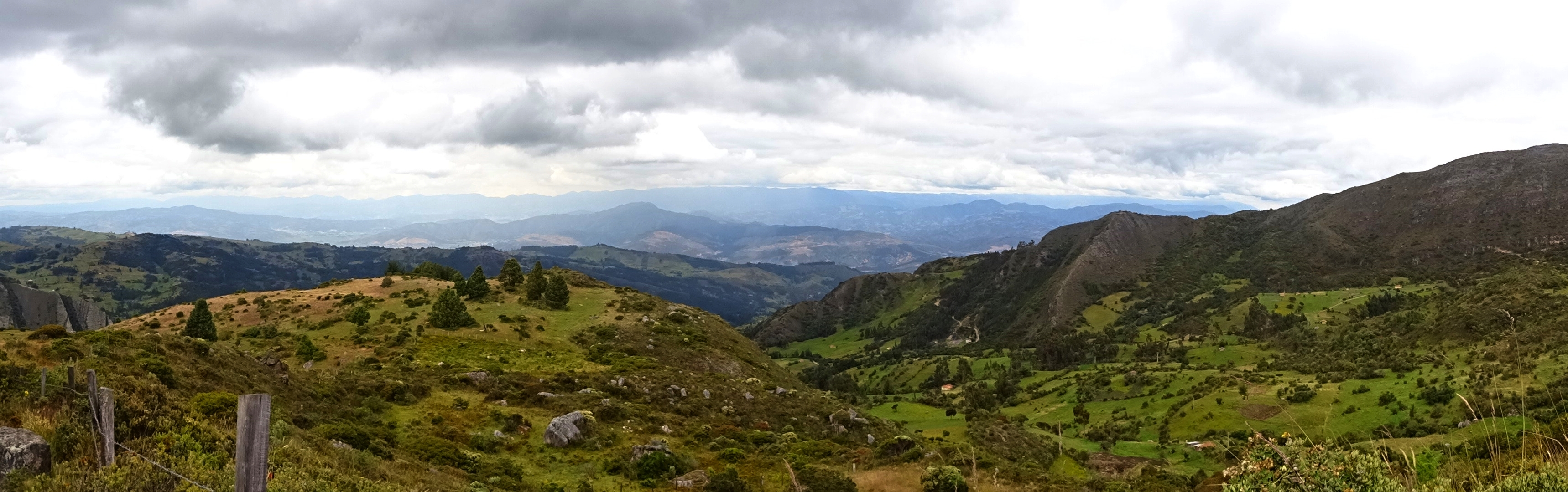 Panorama of Tibasosa (left), Nobsa (centre) and Duitama (background) from the Páramo de Ocetá, Boyacá, Colombia